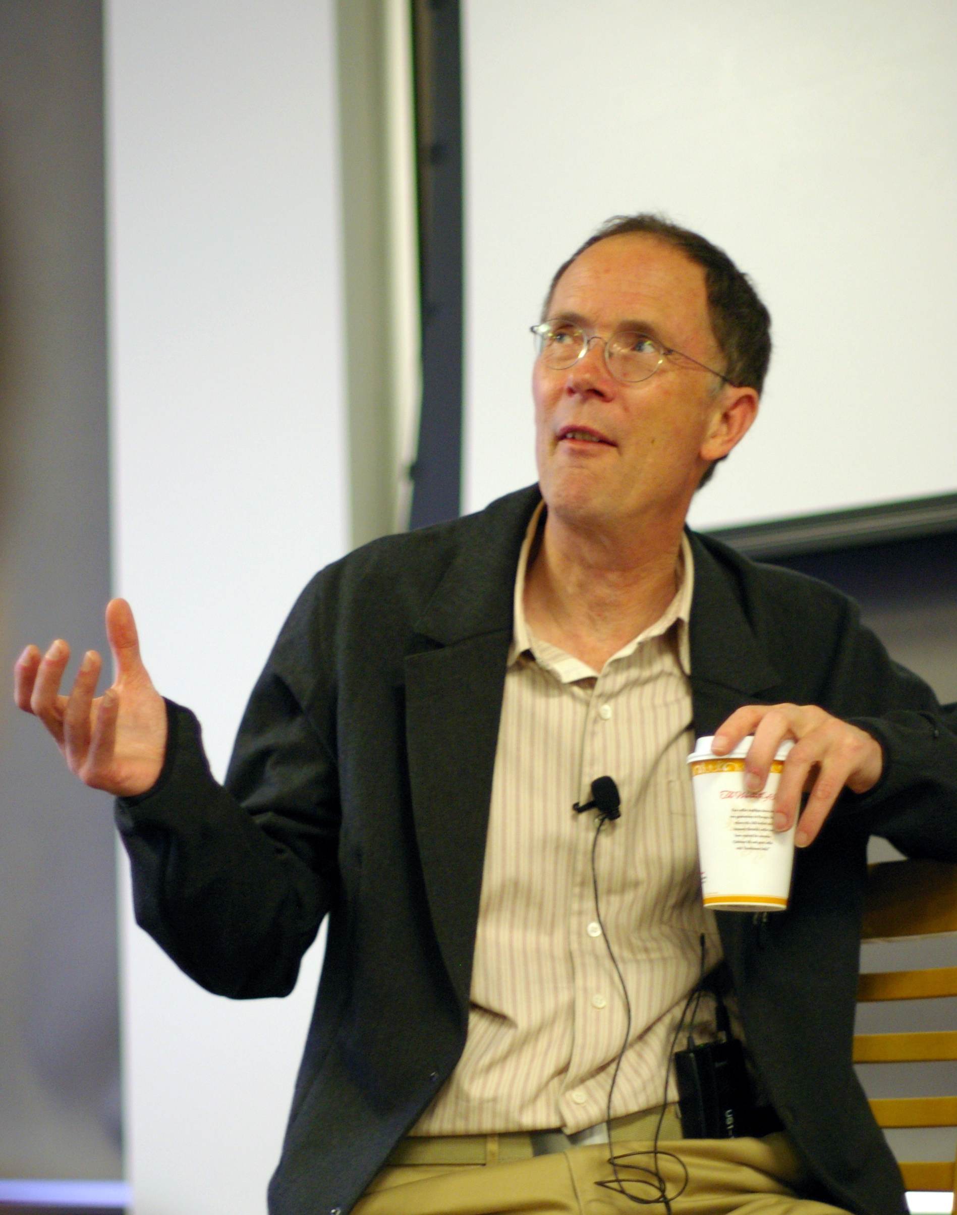 Cropped version of Image:Gibson_expounds, with some fuzz removed from the left-hand side. The subject is William Gibson.